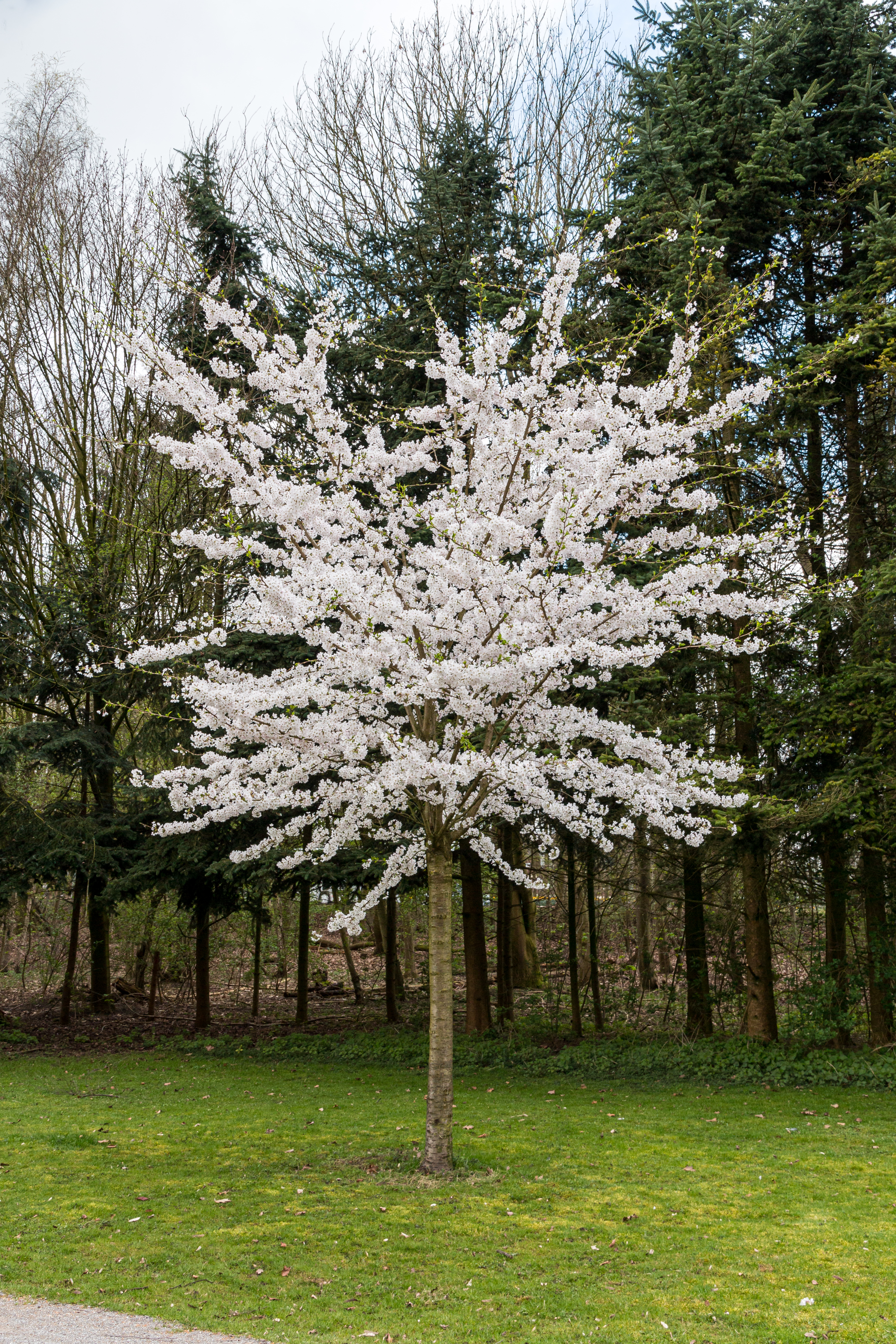 Sentmaring park, Münster, North Rhine-Westphalia, Germany